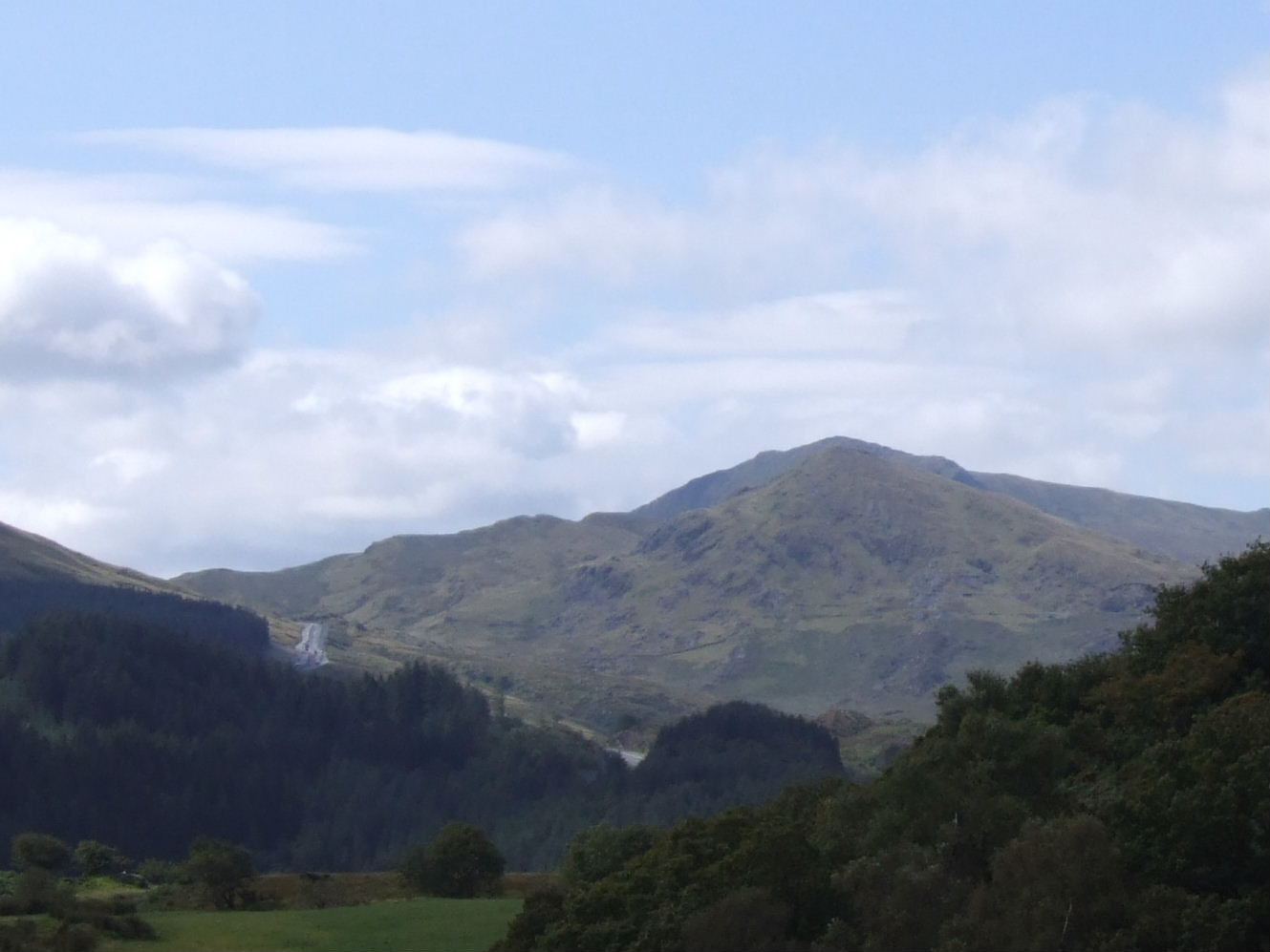 The pass of Bwlch y Gorddinen from Dolwyddelan Castle, Conwy County, Wales.